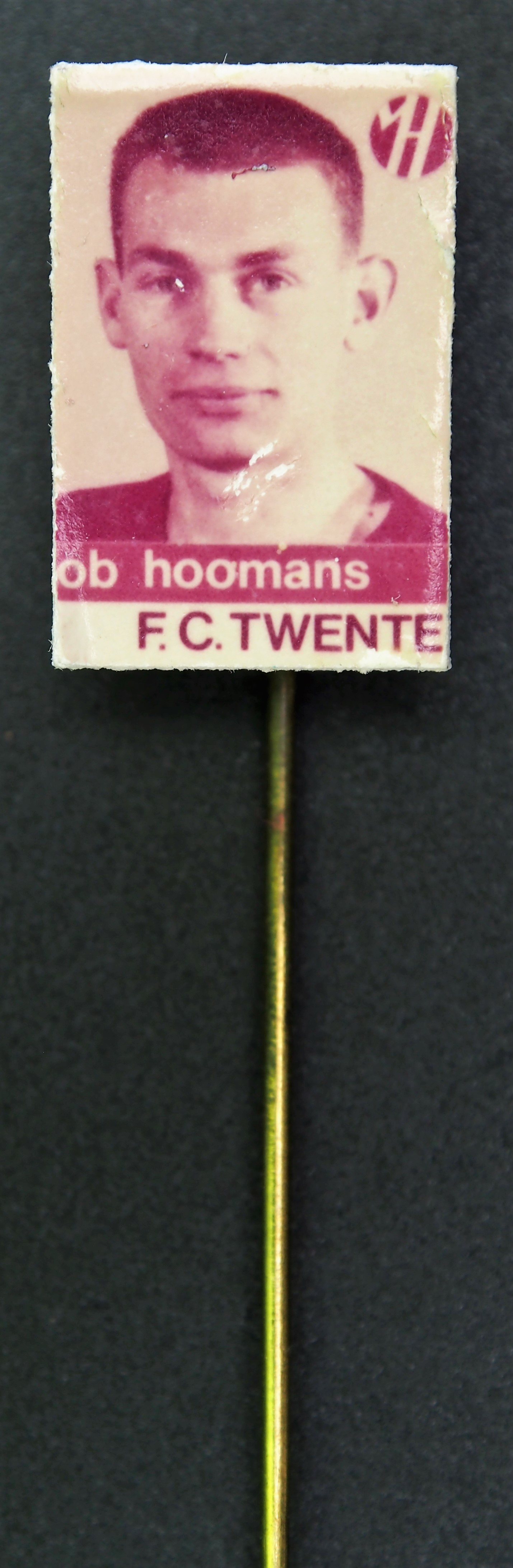 Advertising pin of an old (Dutch) product or brand.